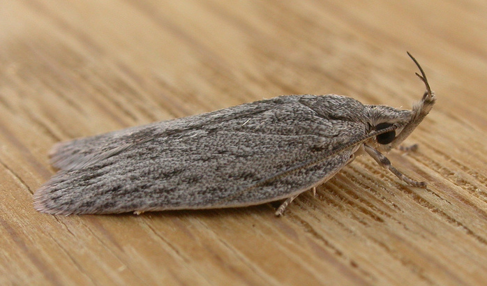 Pedois lewinella